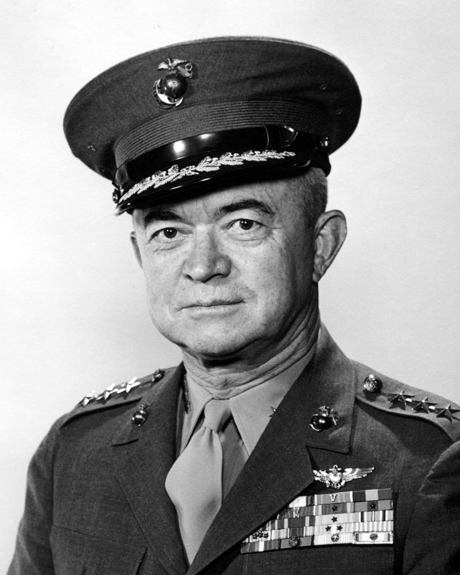 General Vernon Megee. Official U.S. Marine Corps photo